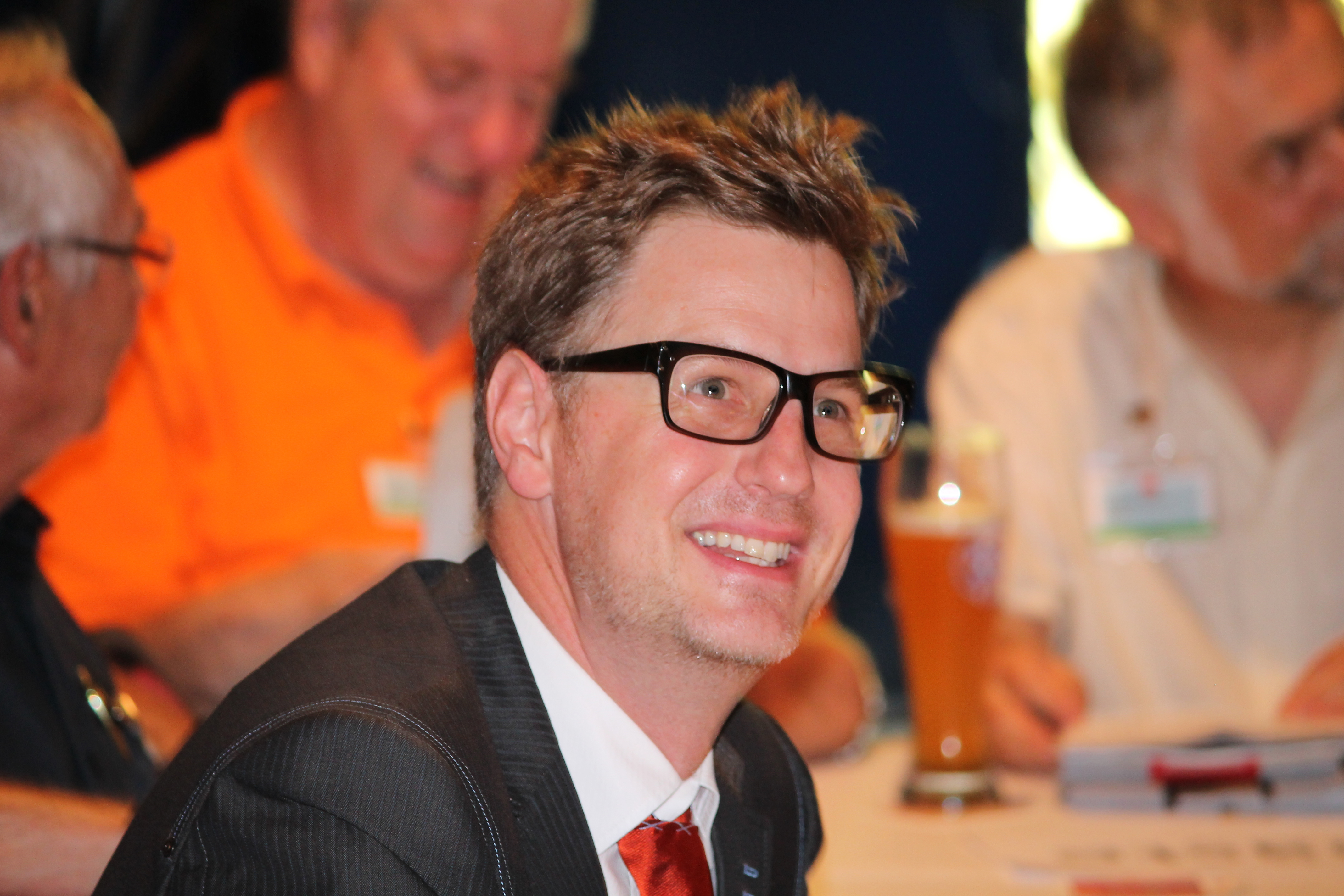 This shows comedian Florian Simbeck (formerly known as Stefan from Erkan und Stefan) who became a member of the SPD-Party. Is was photographed at the SPD small party conference in Munich 2013.